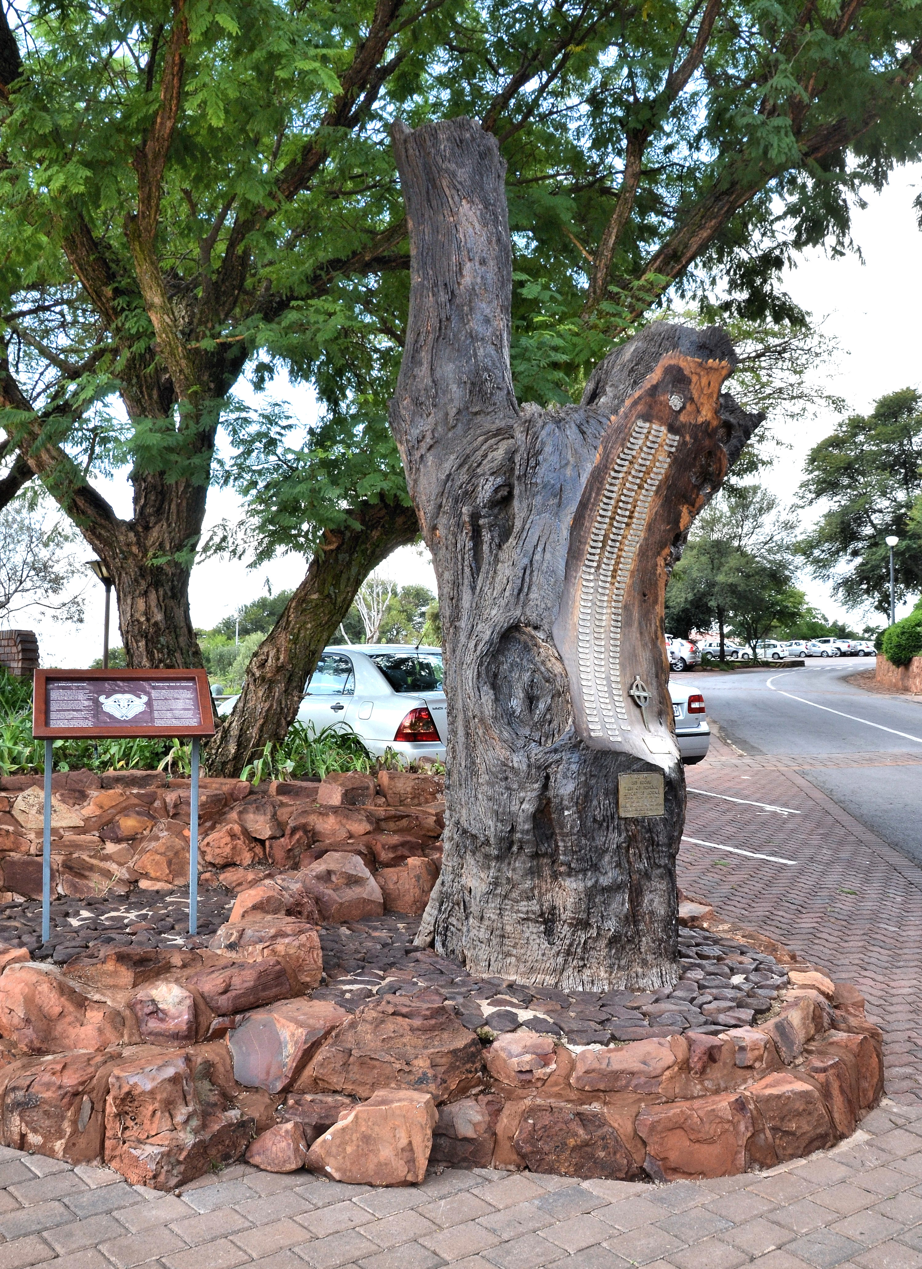 This Tree of Honour holds the names of members of 32 Battalion who were killed in action 1976-1991. It was moved from 2 SAI, Zeerust to the Voortrekker Monument in 2009.